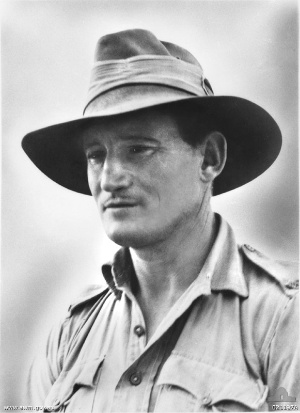 SYRIA. 1941-10-30. WX2437 Corporal James Gordon VC, an Australian solider serving with the 2/31st Battalion during the Second World War, who received a Victoria Cross for gallantry during the Battle of Jezzine on 10 July 1941.